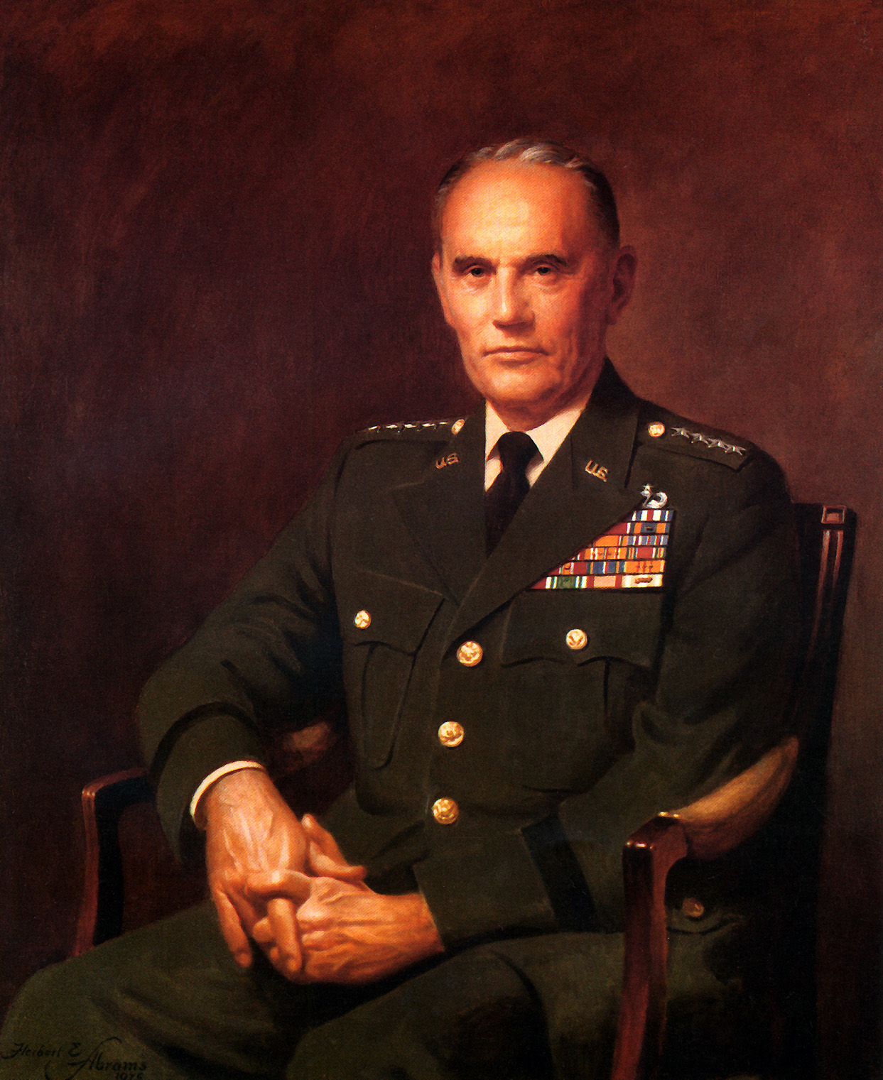 Official portrait of General Bruce Palmer.